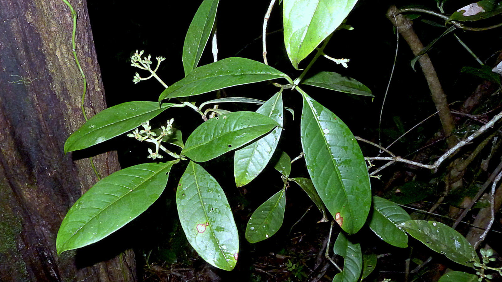 Coussarea albescens (DC.) Müll.Arg.